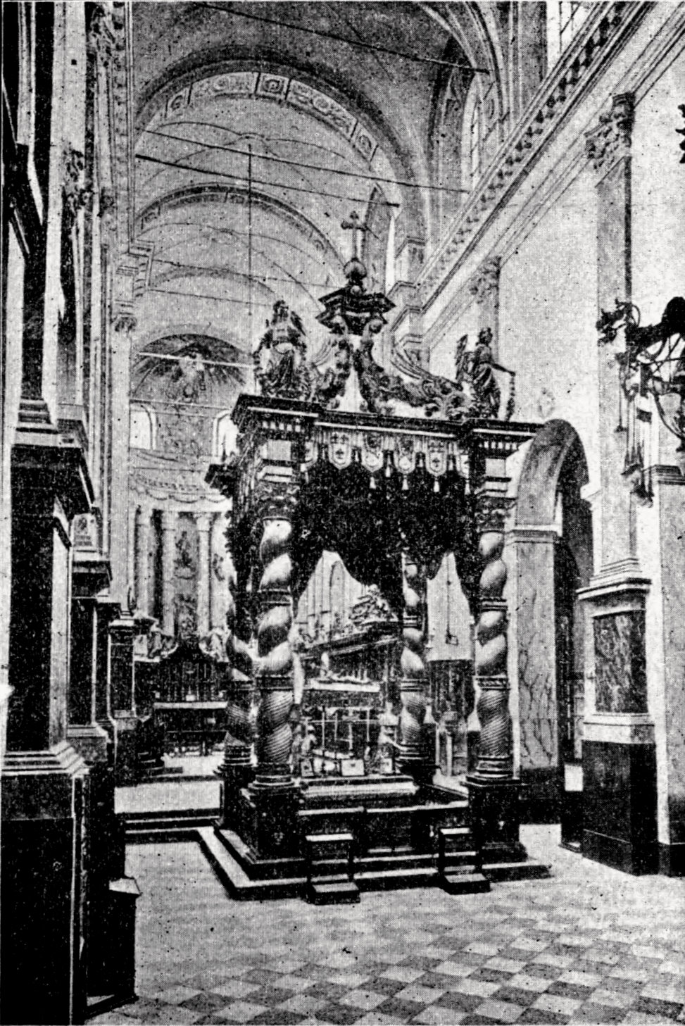 Gniezno Cathedral. Reliquary of St. Adalbert. Photo from: Przewodnik po Gnieźnie wraz z planem miasta, Gniezno 1915. Publisher: J.B. Lange